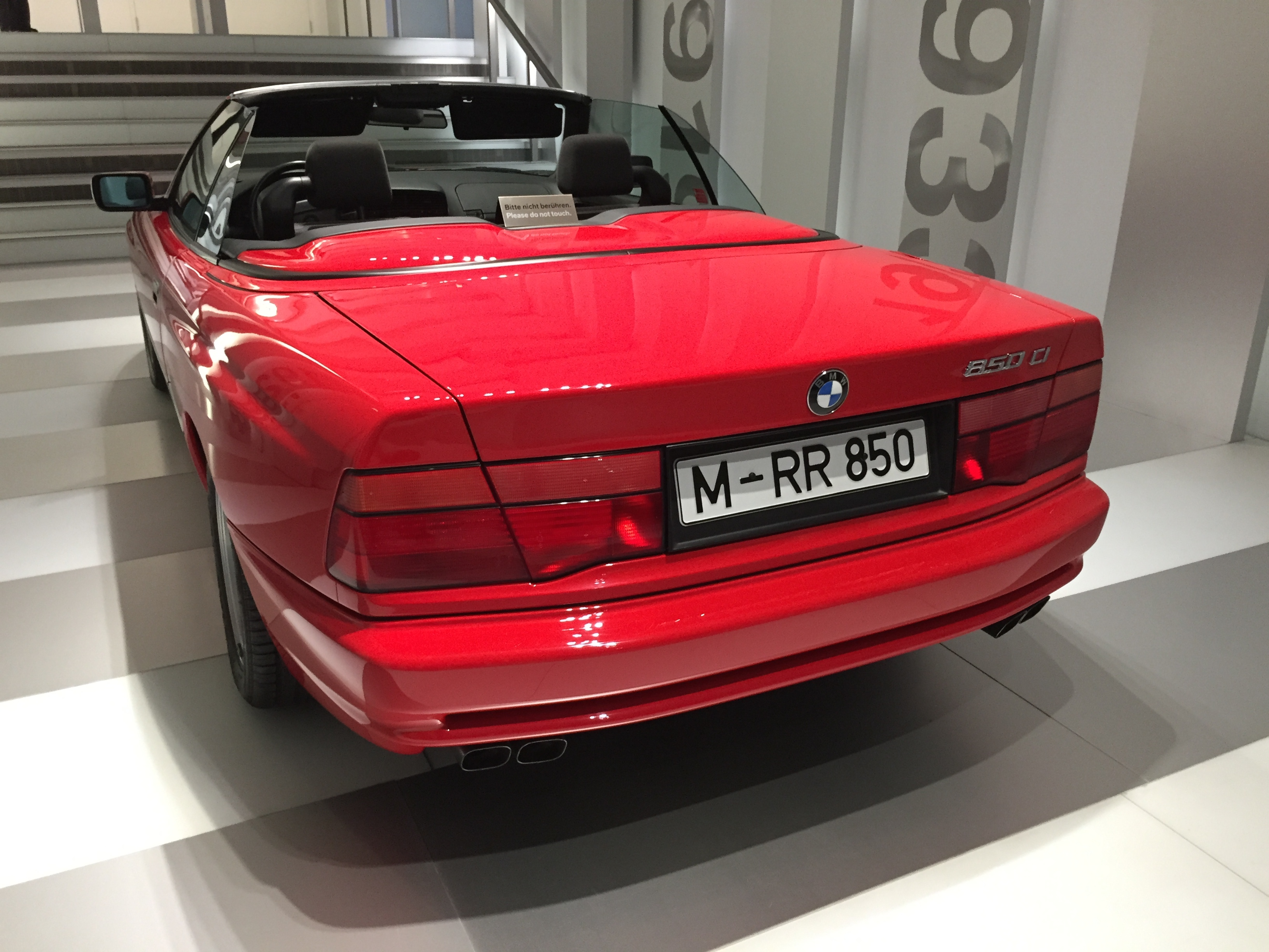 850i Cabrio Prototype, as seen in the BMW Museum in August 2015.